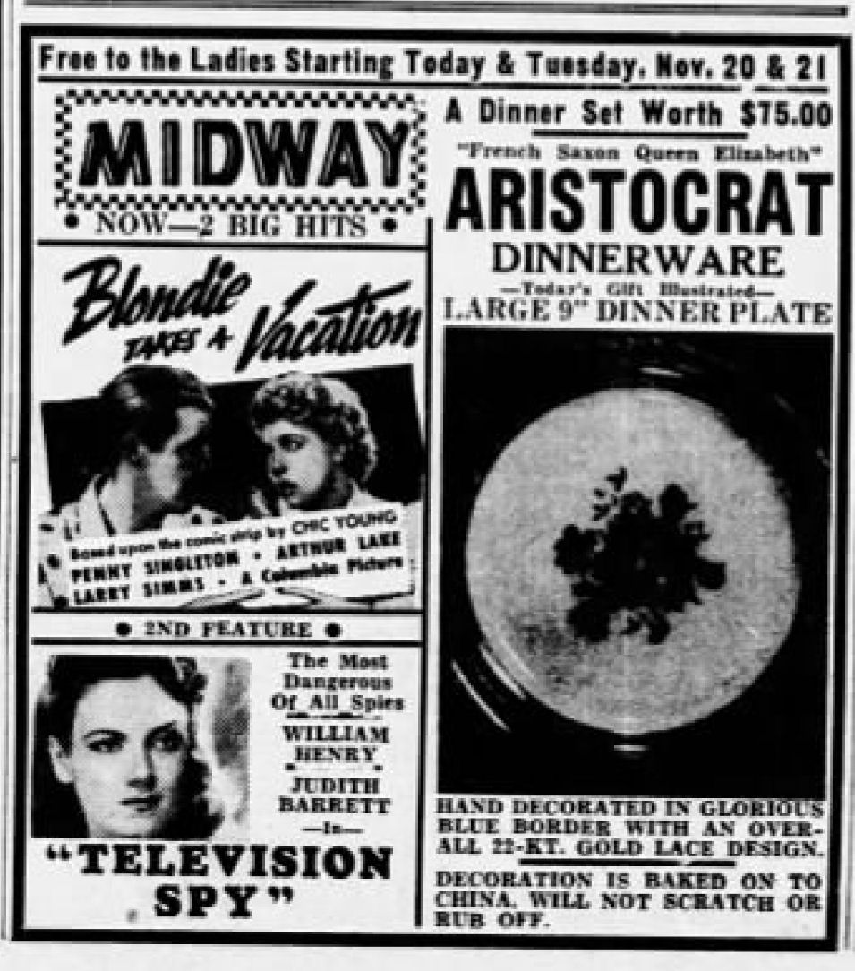 Midway Theater advertisement for the American films Blondie Takes a Vacation (1939) and Television Spy (1939) - 20 Nov. 1939 Morning Call - Allentownn PA